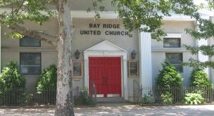 Church Front with Red Doors